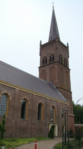 Church of Grootebroek